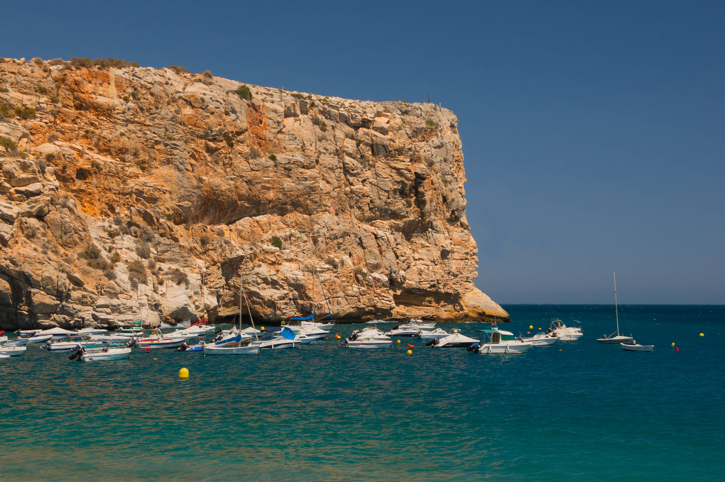 The rocky promontory in front of the harbor of Calahonda, Alboran sea, Granada province, Spain